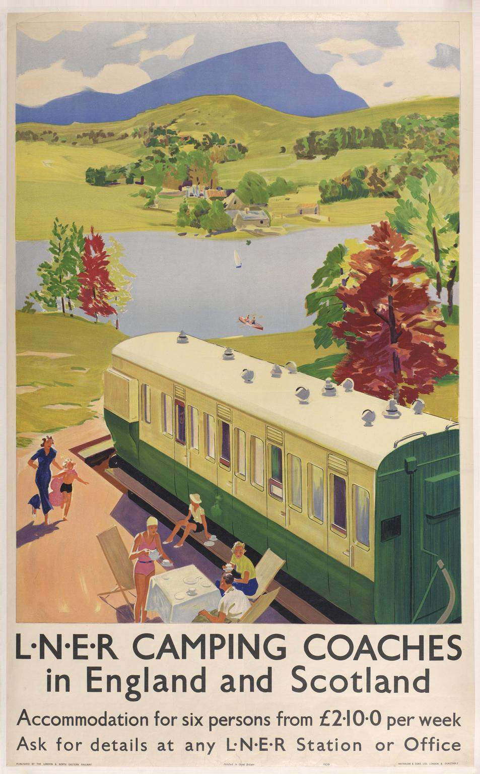 Poster, London & North Eastern Railway, Camping Coaches in England & Scotland. With an illustration of a coach with people sitting outside of it with a lake and mountains in the background.